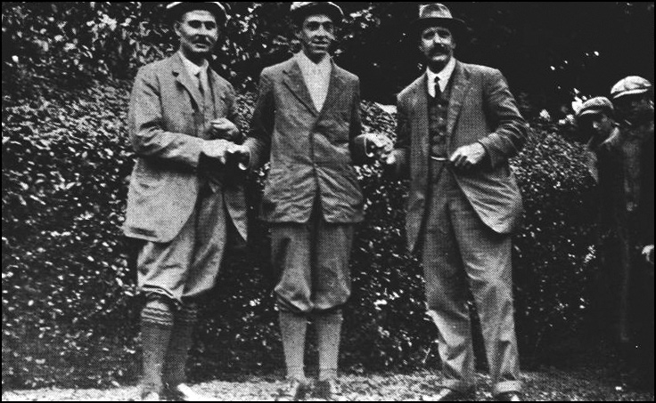 Francis Ouimet (center) with Harry Vardon (left) and Ted Ray after his famous 1913 U.S. Open win in a playoff over the two English golfers.